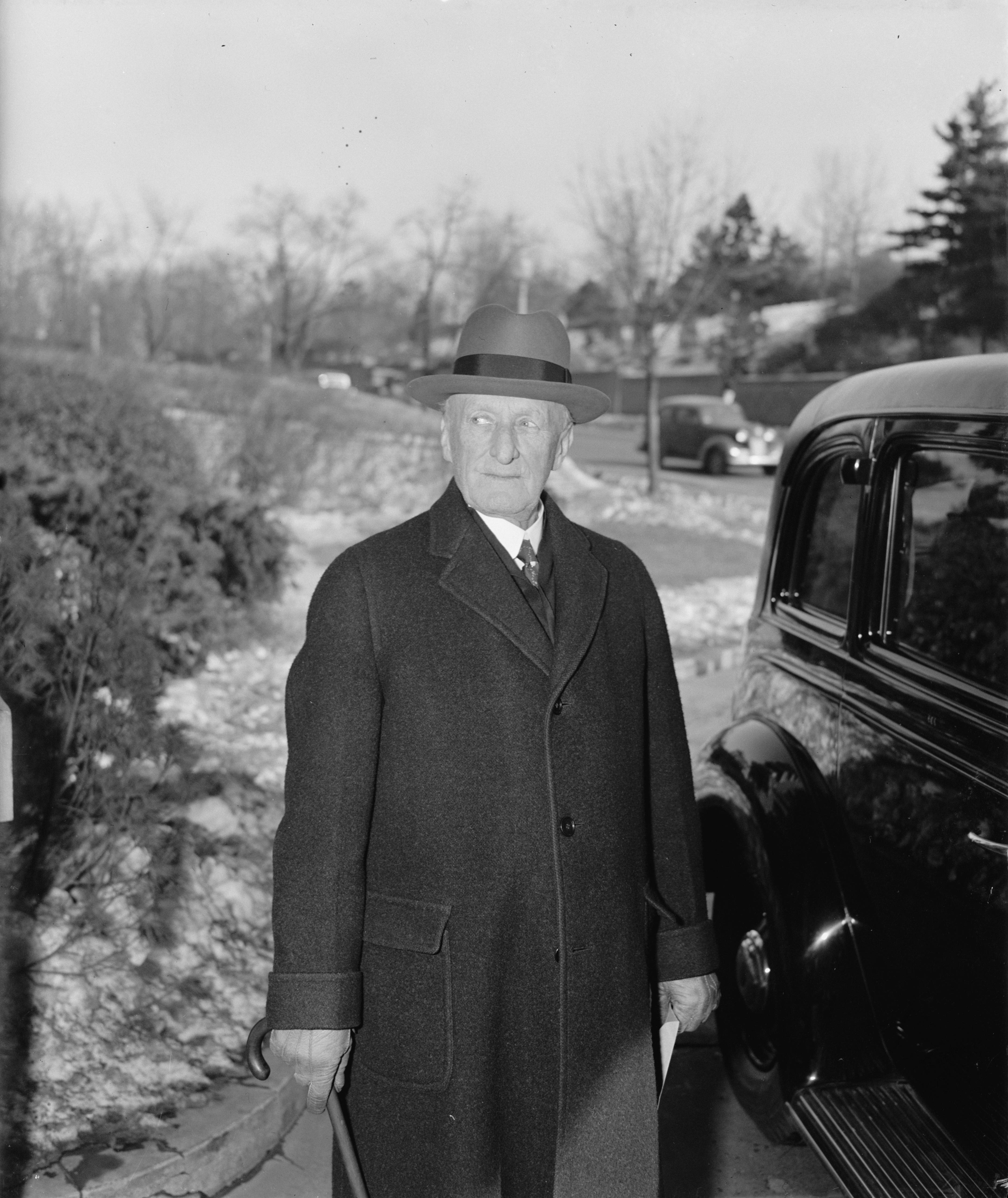 Associate Justice James Clark McReynolds of U.S. Supreme Court celebrating 78th birthday. Pictured leaving his apt. for usual daily walk.